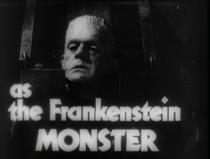 Cropped screenshot of Boris Karloff from the trailer for the film Bride of Frankenstein.